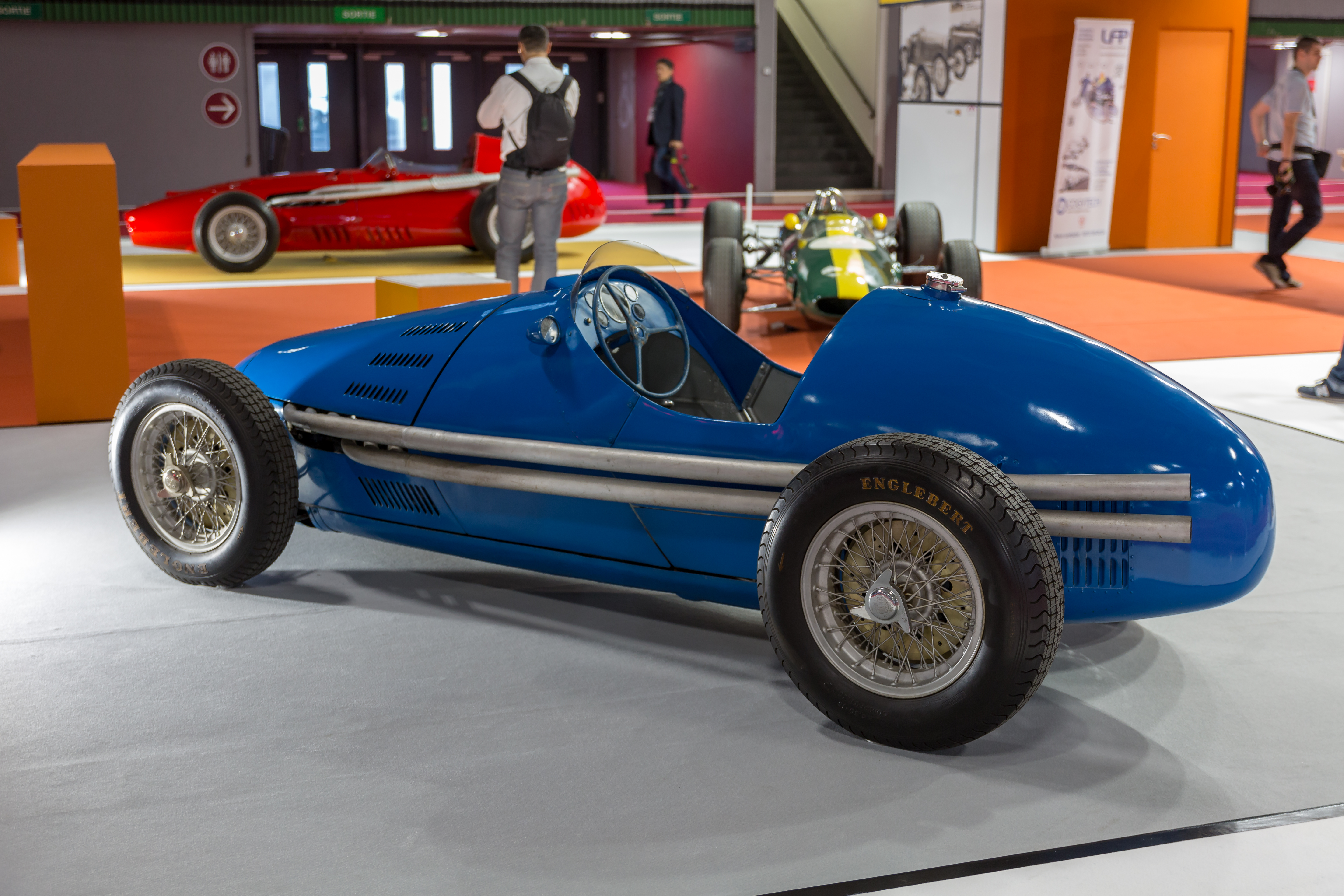 1952 Gordini Type 16 of the Schlumpf collection at Mondial Paris Motor Show 2018